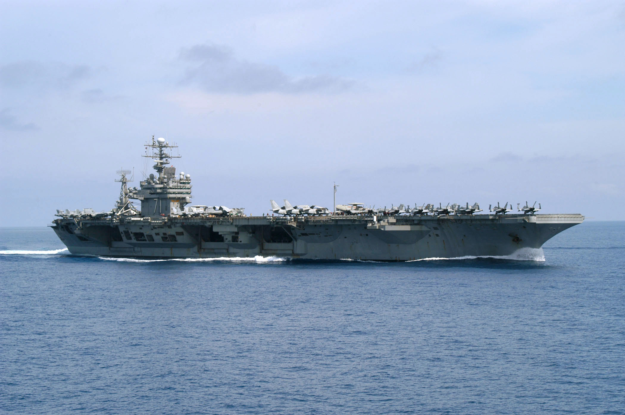 Mediterranean Sea (Apr. 12, 2003) -- USS Theodore Roosevelt (CVN 71) underway conducting combat missions in support of Operation Iraqi Freedom. Operation Iraqi Freedom is the multi-national coalition effort to liberate the Iraqi people, eliminate Iraq’s weapons of mass destruction, and end the regime of Saddam Hussein. U.S. Navy photo by Photographer’s Mate Airman Todd Flint. (RELEASED)